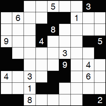 9x9 Str8ts Puzzle (easy/gentle grade)